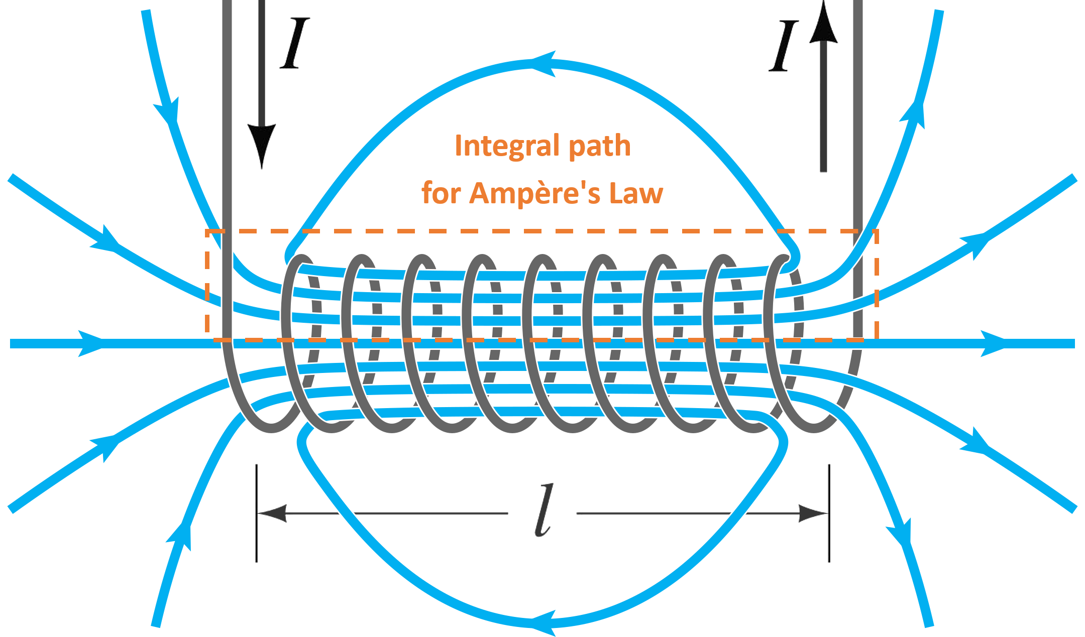 The pictures shows how Ampere's law can be applied to the Solenoid. The original image comes from "